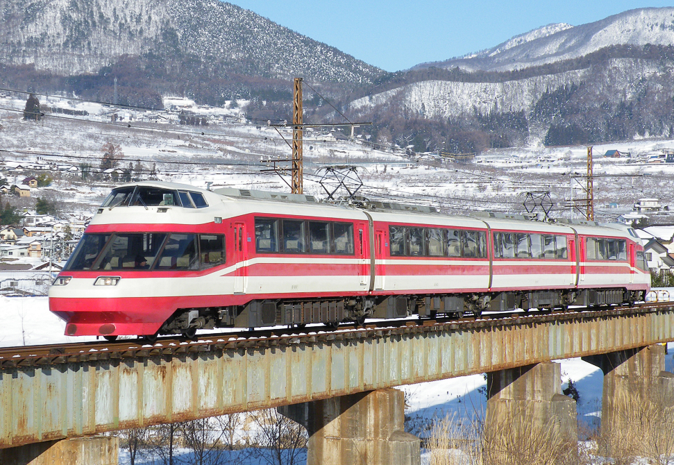 Electric multiple unit series 1000 of Nagano railway co.Ltd., Japan.